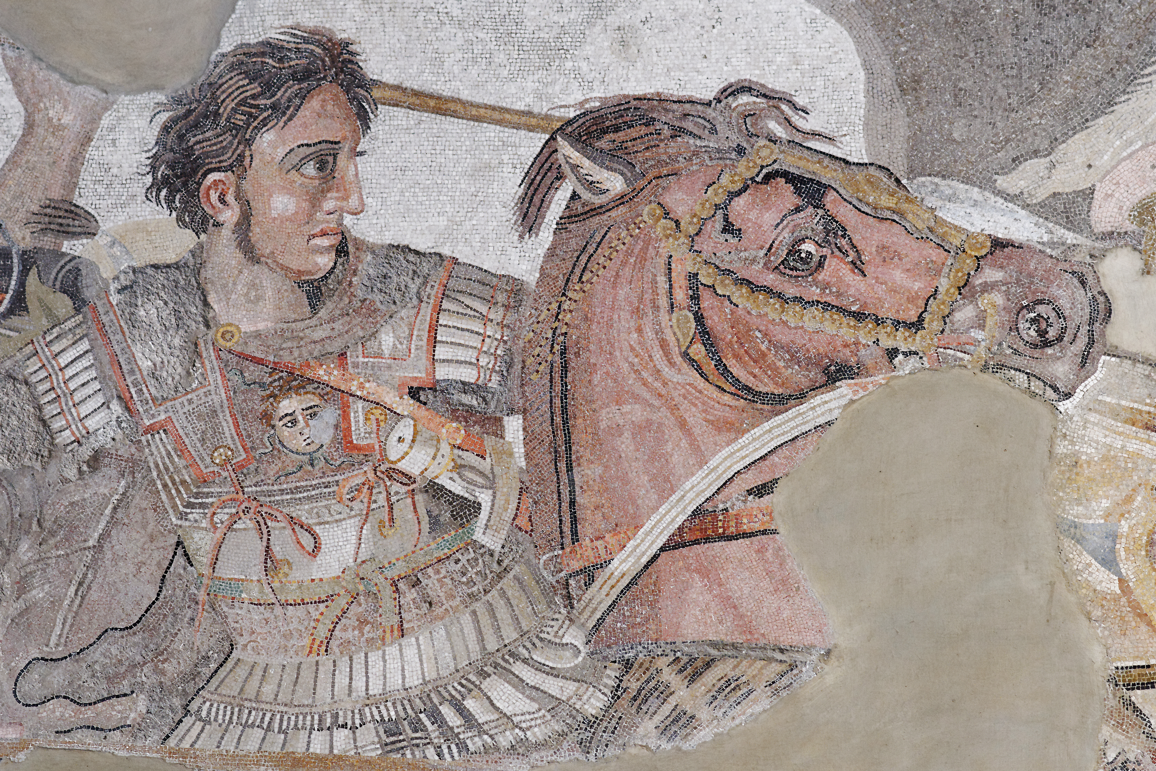 Alexander the Great on horse, detail of a representation of the battle of Issos. Floor mosaic, Roman copy after a Hellenistic original by Philoxenos of Eretria.